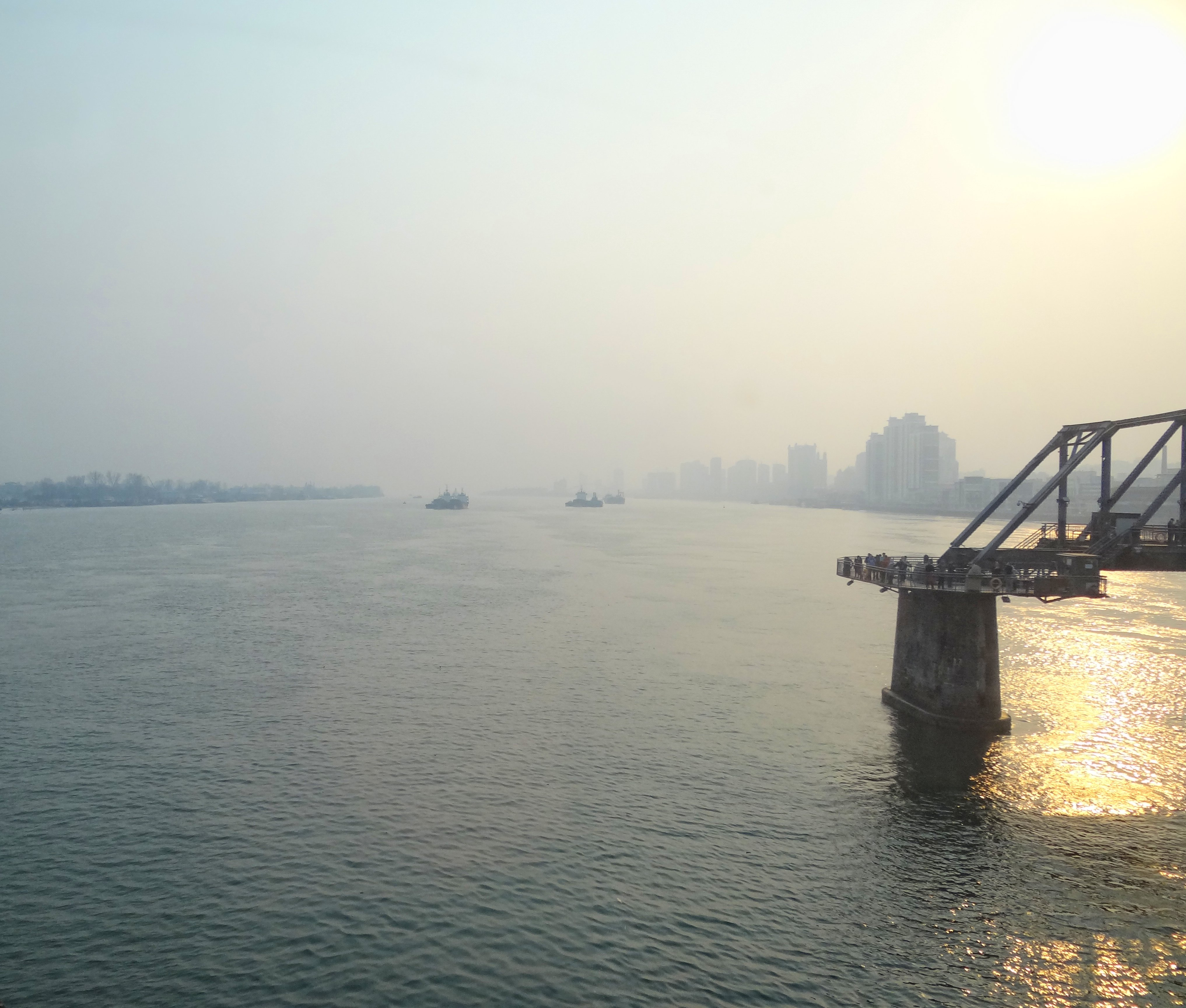 The view from the train between China (right side) and North Korea (left side) during the crossing of the Yalu River.